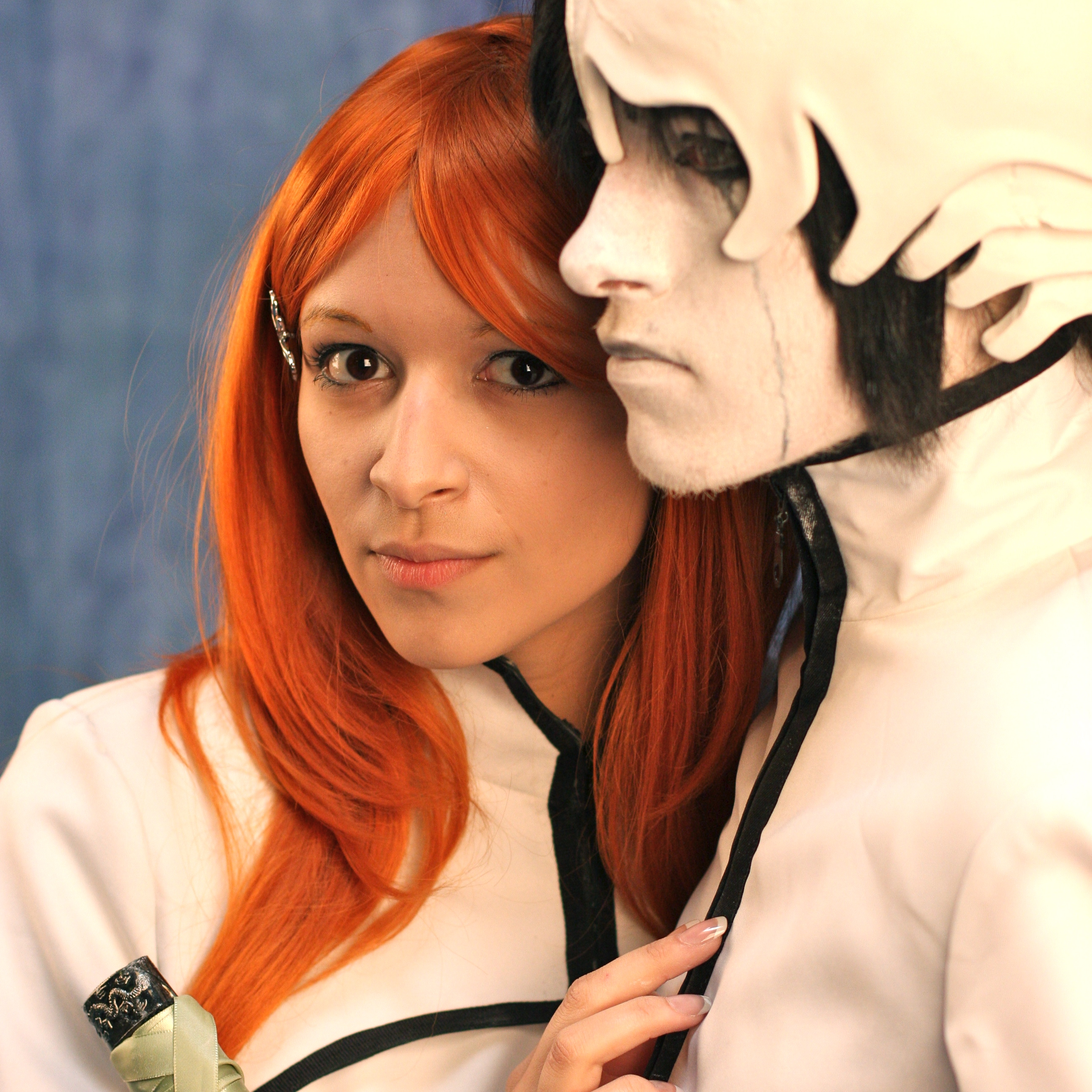 Con-Nichiwa Cosplay, Tucson, Arizona, March 2010.